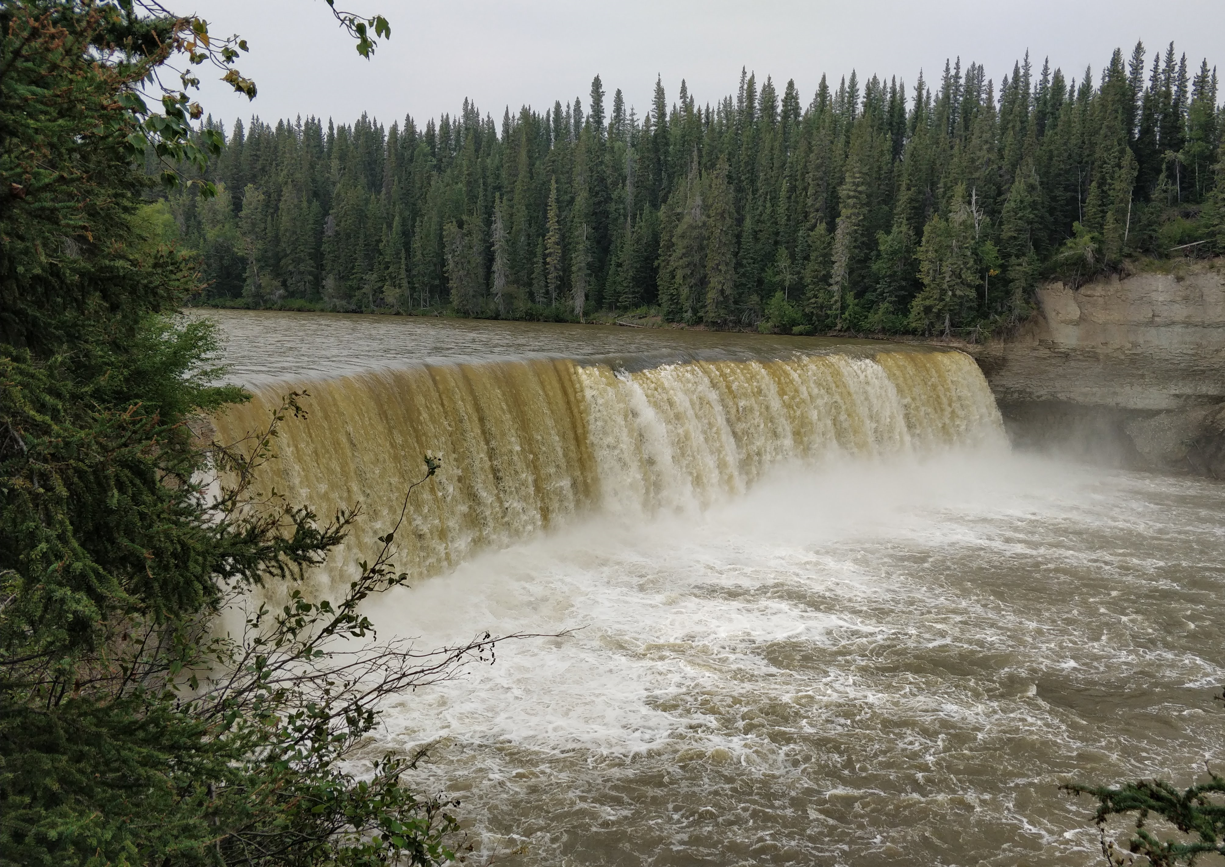 Lady Evelyn Falls outside Kakisa, Northwest Territories, Canada.